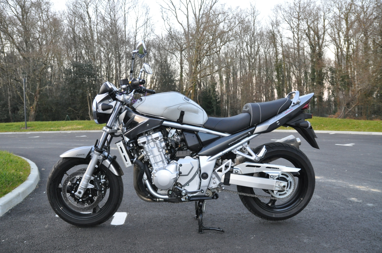 Suzuki GSF Bandit 1250 N